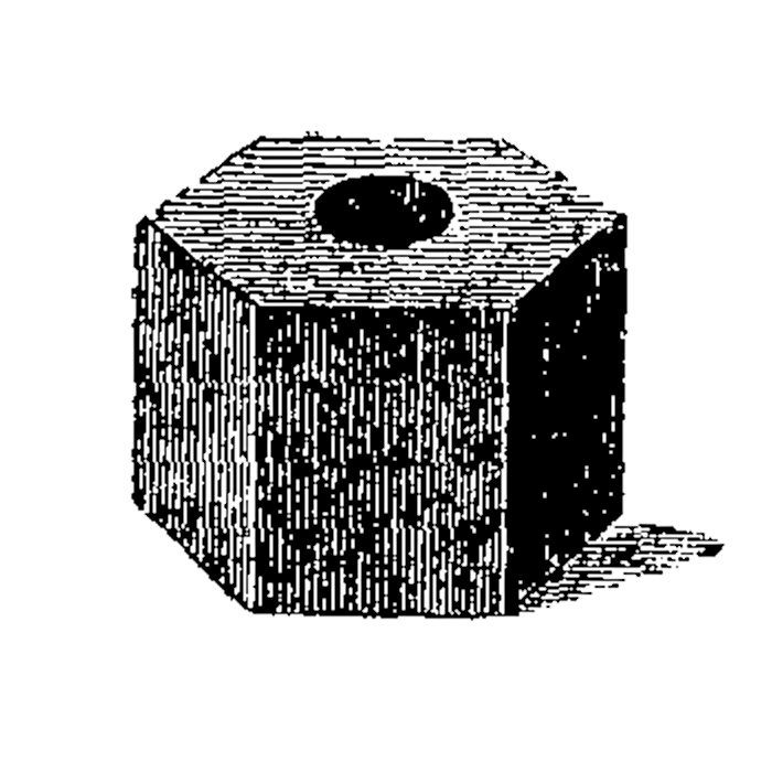 Hexagonal Gunpowder corn